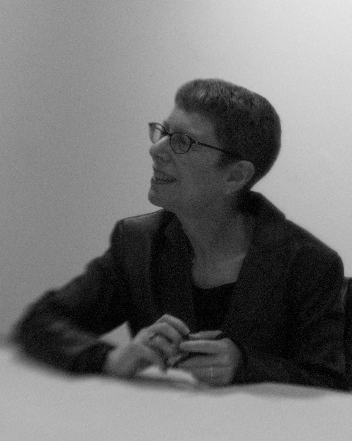 Terry Gross, host of American National Public Radio program Fresh Air, at the Georgia Tech FERST Center for the Arts, in Atlanta.